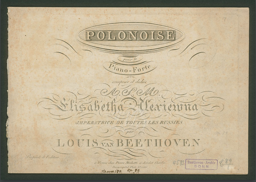 A picture of the cover of the Mechetti edition of Beethoven's Polonaise in C Major, Op. 89.